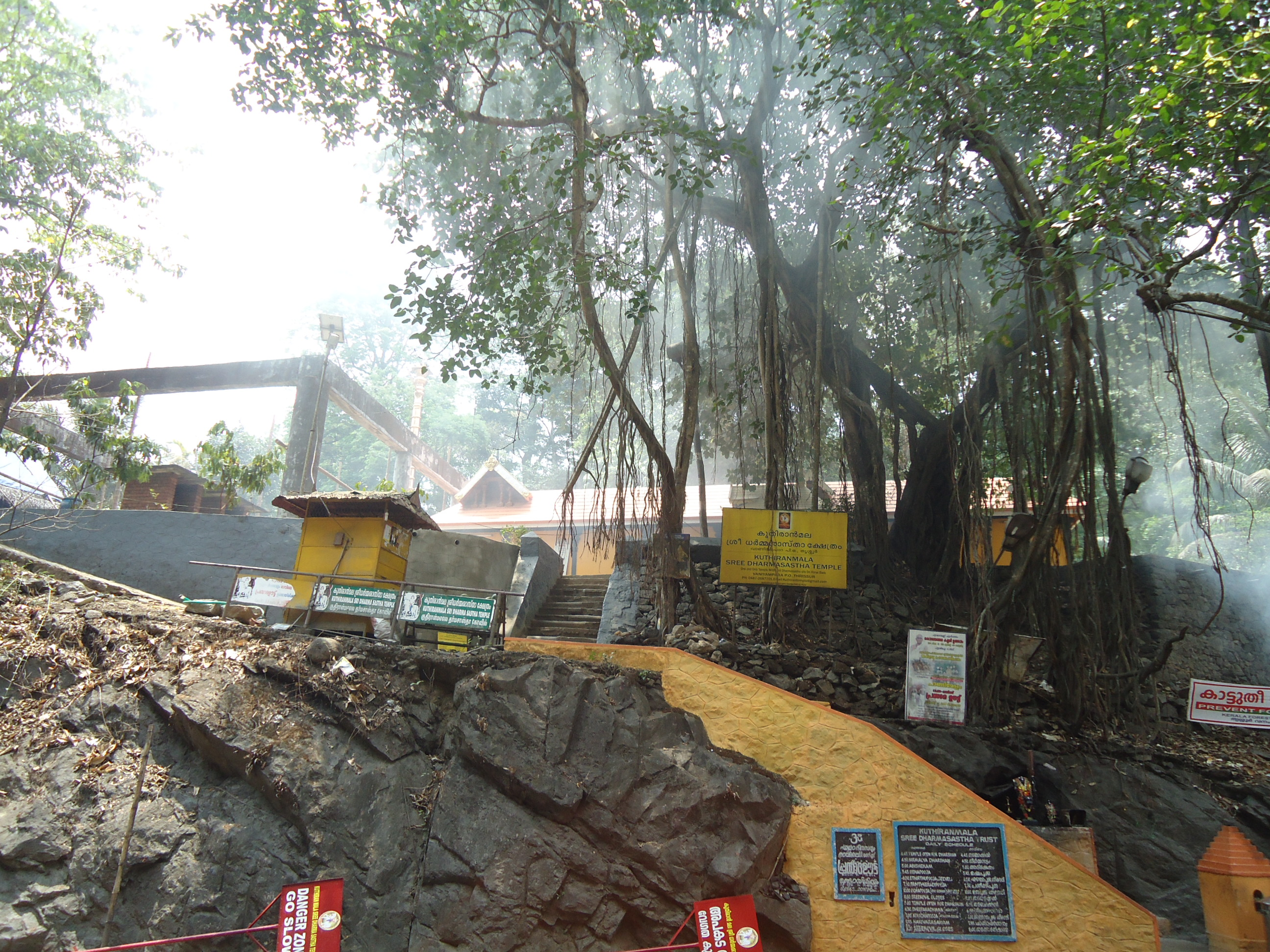 Kuthiranmala Sree dharmasastha TEmple Road